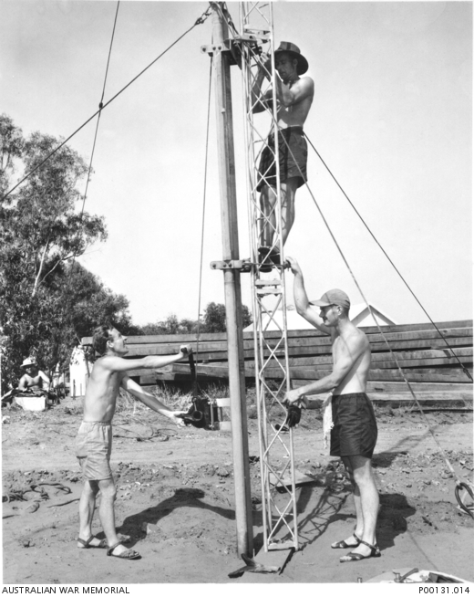 A radio antenna being constructed for the British Operation Hurricane nuclear test